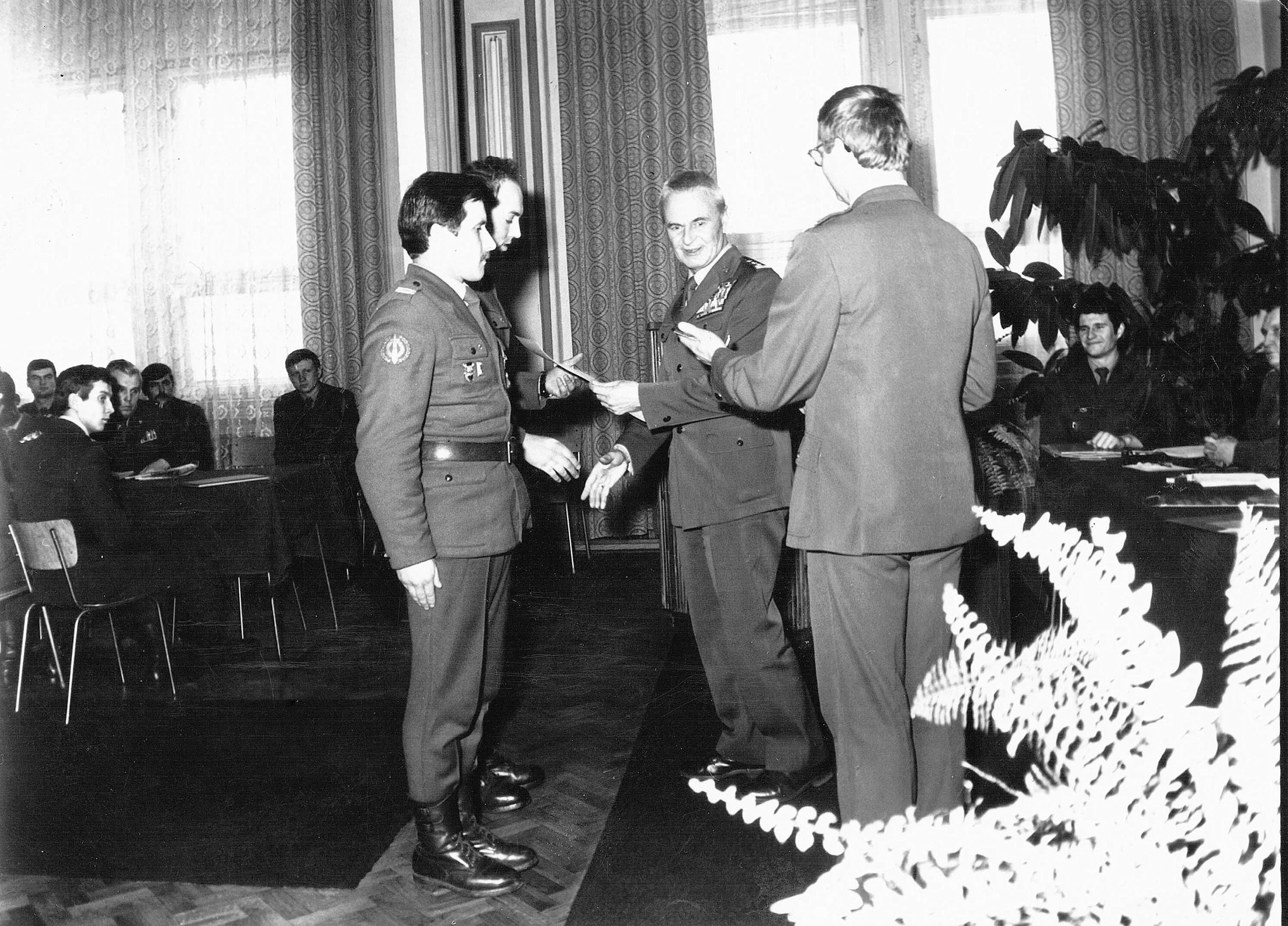 WOP post in Zebrzydowice